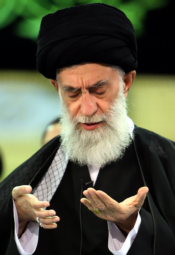 Ayatolla Ali Khamenei praying